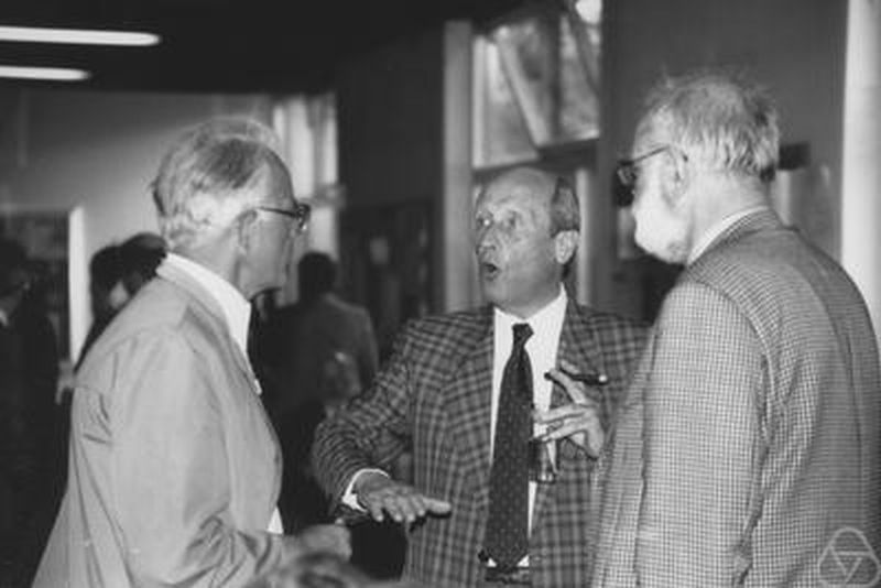 Heinz König (middle) with Konrad Jacobs (right) and Dietrich Bierlein (left) 1988 in Erlangen